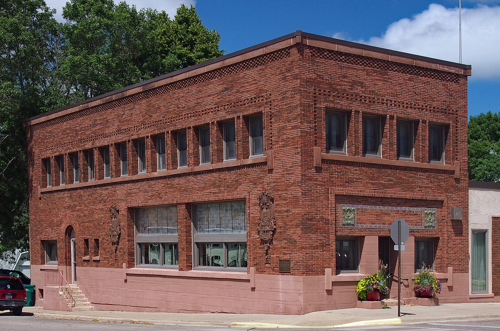 Exchange State Bank, Grand Meadow, Minnesota, USA. Viewed from the southeast.